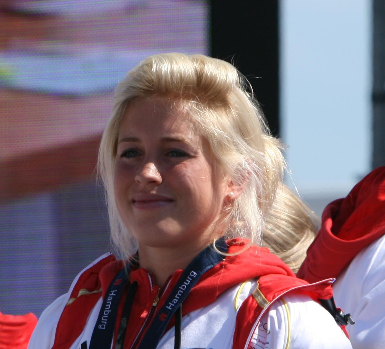 Kristina Hillmann beim Empfang der Olympioniken 2012 in Hamburg